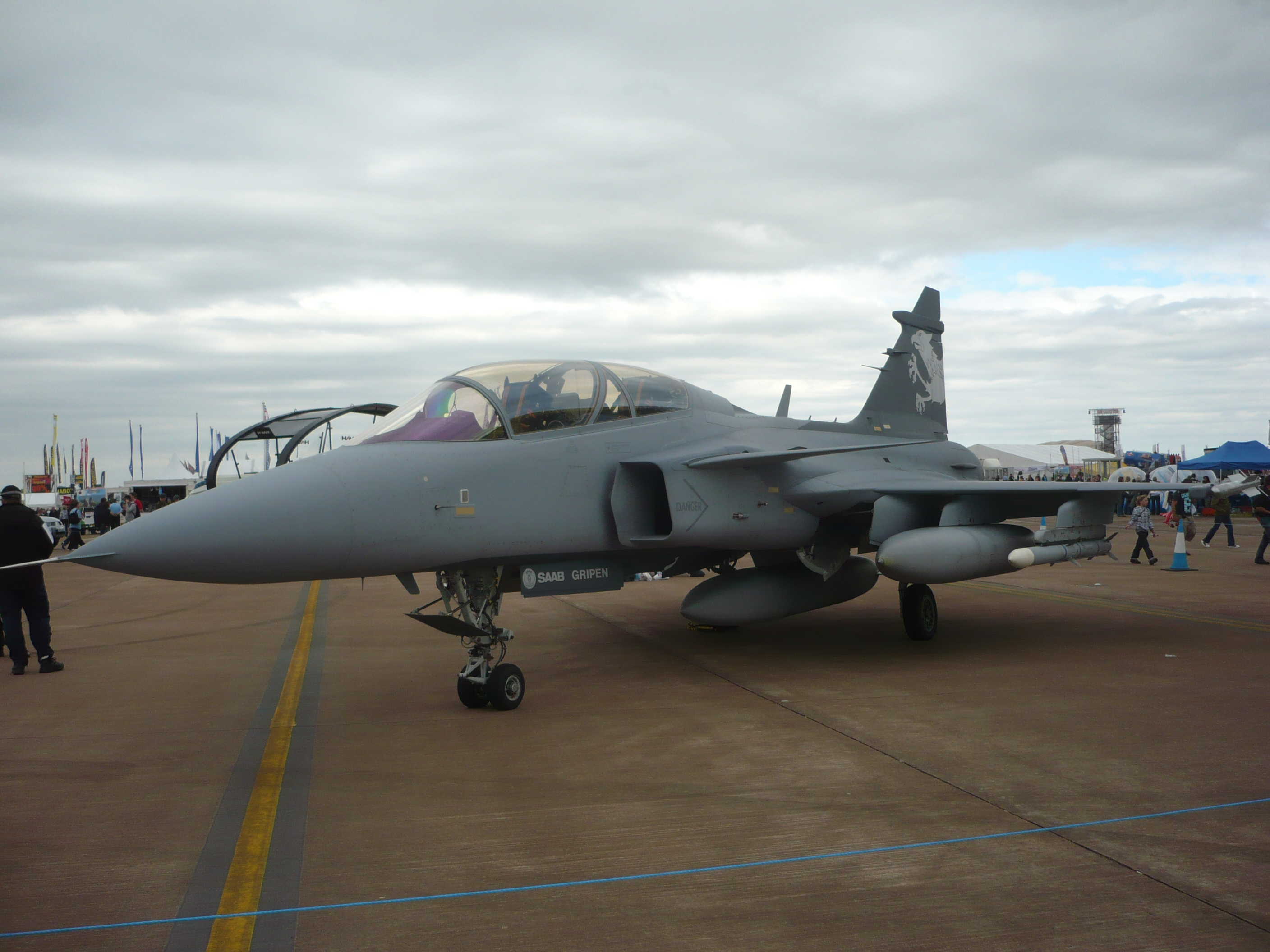 Saab Gripen NG Demonstrator 39-7 at RIAT 2010.